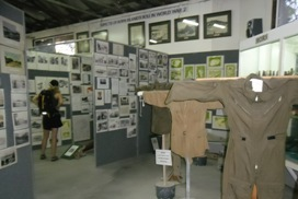 Horn Island Museum